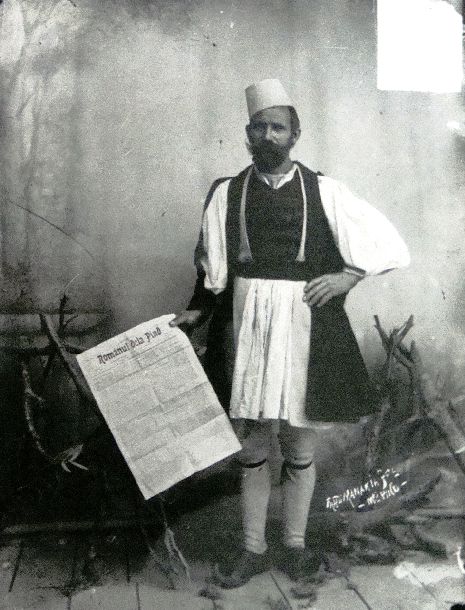 Ilinden voivode Sterjo Postalina (with a newspaper in his hand). In 1905, his regiment was surrounded and destroyed by the Turkish army, but Sterjo survived and joined the regiment of voivode Koshka. (Ioannina 1909) This media file is produced by Wikipedian in Residence in Category:Wikipedian in Residence at DARM in 2016.